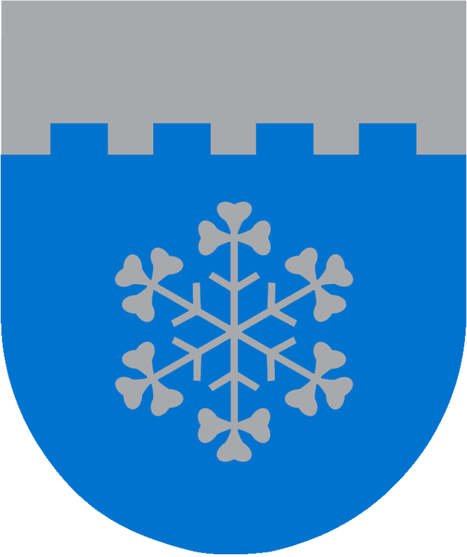 Coat of arms of Jõgeva Parish (2017-)